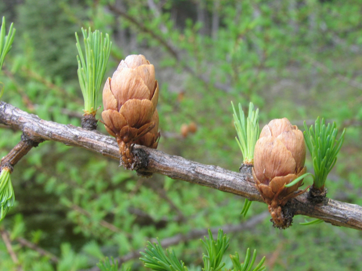 Larix laricina foliage and cones USA